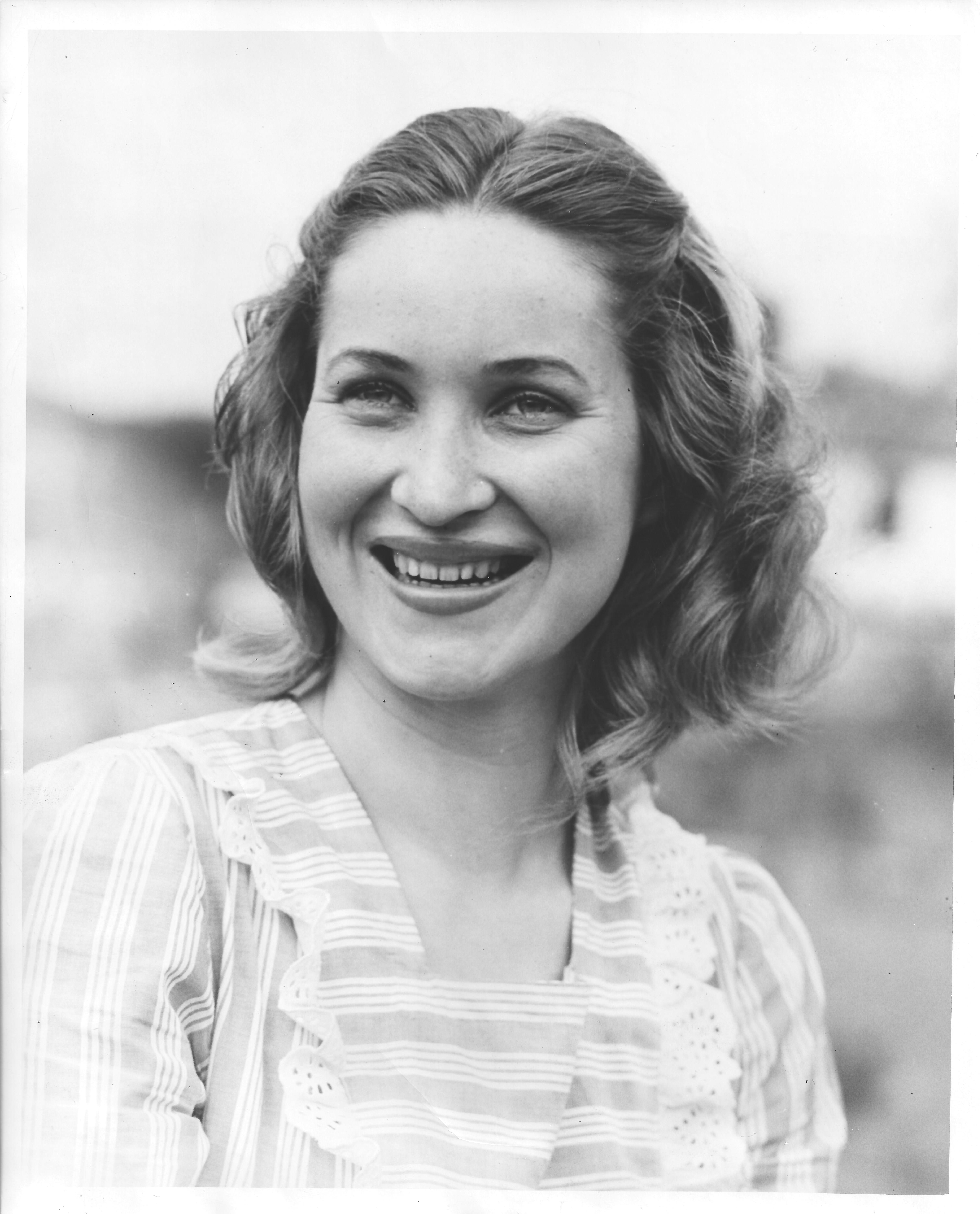 Miss Margaret Clarke at the launching of LST-943, which she sponsored, on 8 August 1944 at the Bethlehem-Hingham Shipyard, Inc. in Hingham, Mass. US Navy photo.